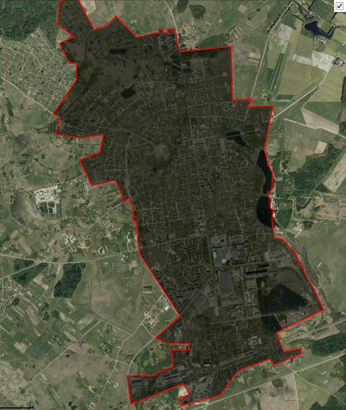 Rokiškio miesto teritorija.